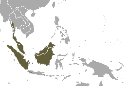 Banded Linsang (Prionodon linsang) range